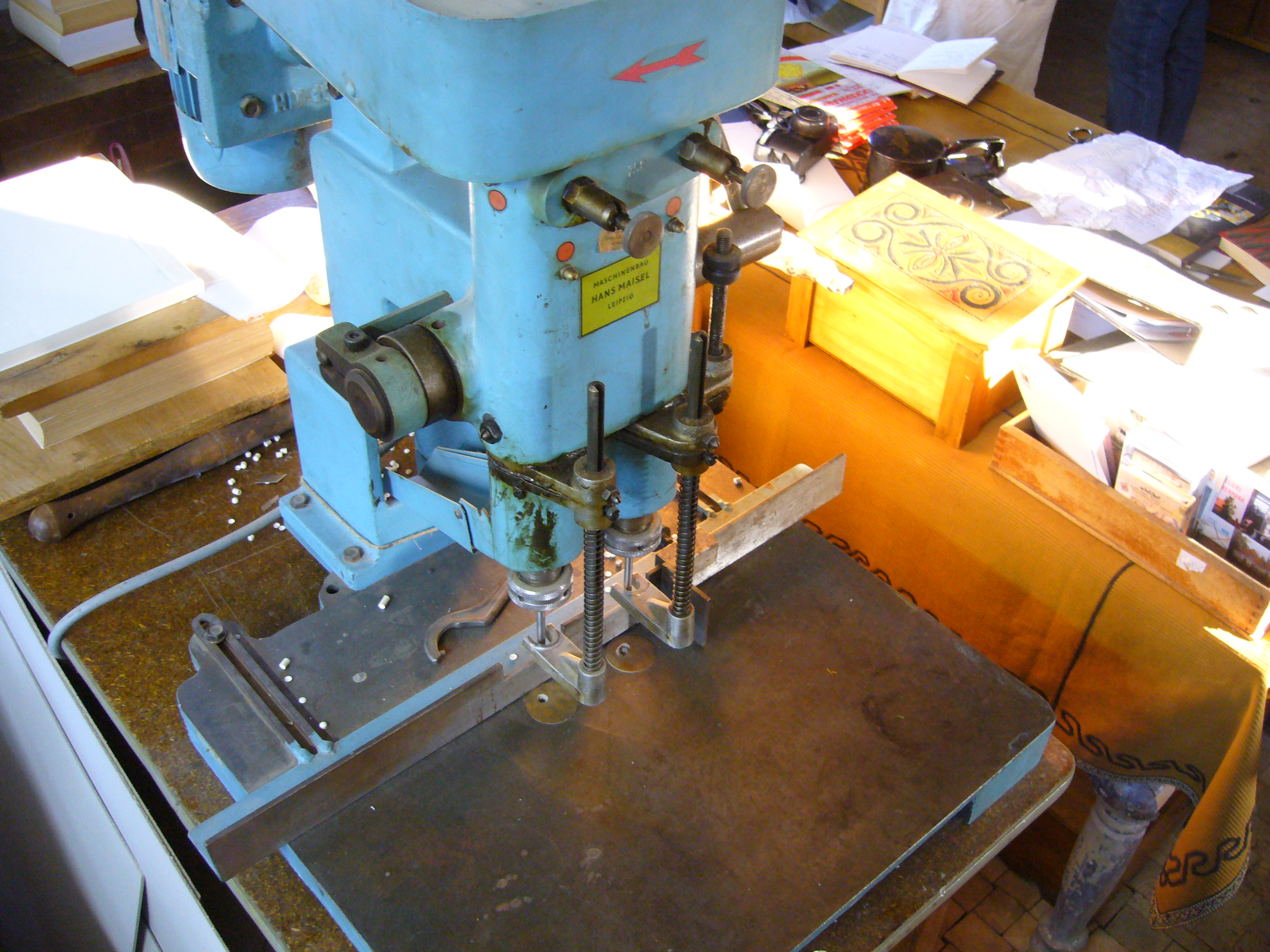 This motor-driven industrial punch can punch entire stacks of paper in one operation.